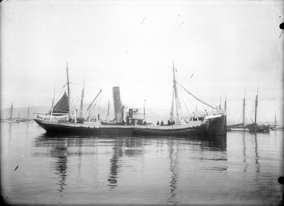 1908-1920, togarinn Jón forseti RE 108 á Reykjavíkurhöfn. Ísing á skipi. Ljósmyndari / Photographer: Magnús Ólafsson Format: Glerplata / Glass negatives, 10 x 15 cm. Höfundarréttur / Rights Info: Enginn þekktur höfundarréttur / No known restrictions on publication. Geymsla / Repository: Ljósmyndasafn Reykjavíkur / Reykjavík Museum of Photography, Tryggvagata 15, 6. Hæð / 6th floor Númer myndar / Call Number: MAÓ 1347 Myndavefur Ljósmyndasafnsins / Reykjavík Museum of Photography´s photoweb: ljosmyndasafn.reykjavik.is/fotoweb/Grid.fwx